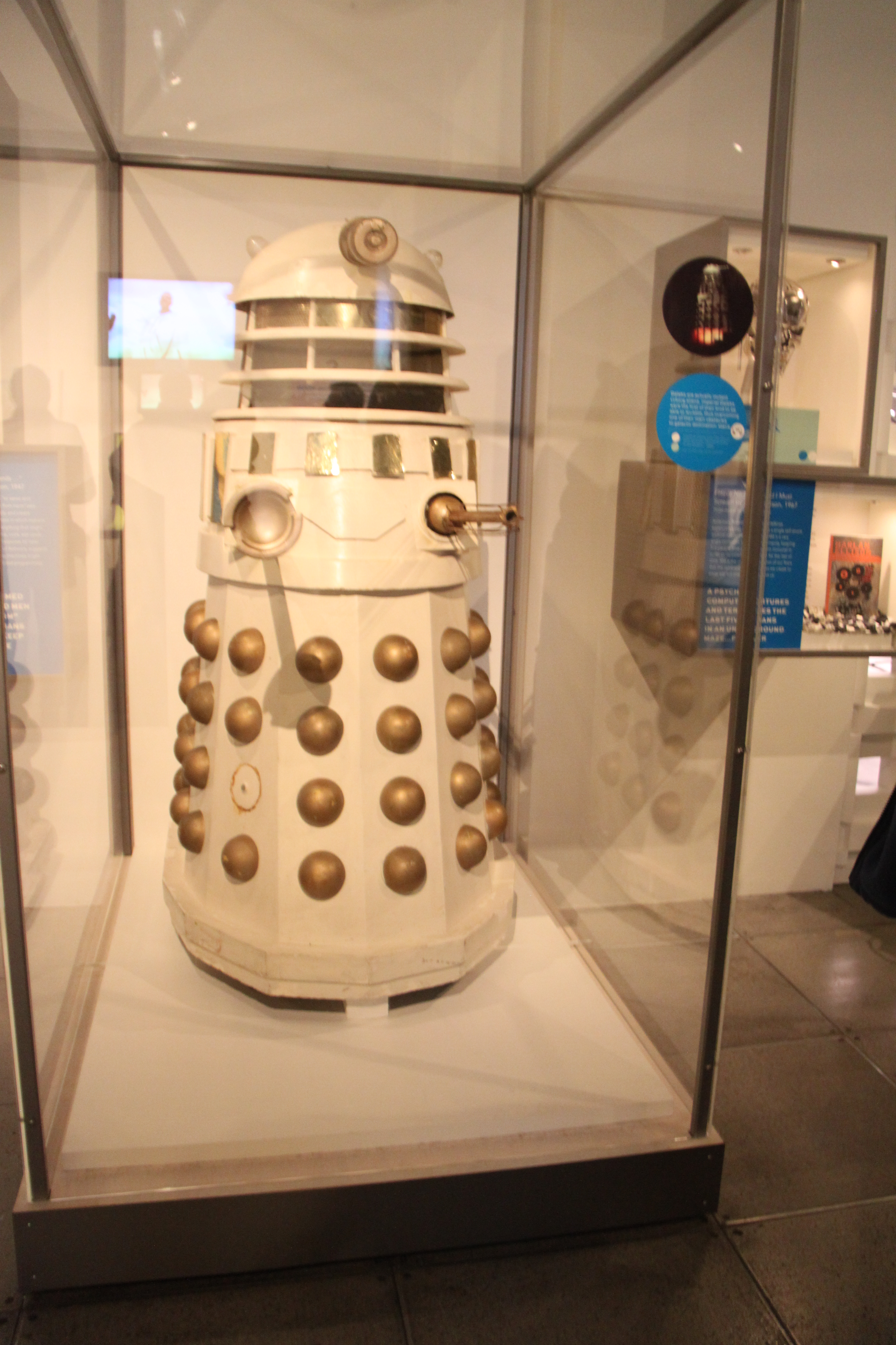 Icons of Science Fiction exhibit, Experience Music Project/Science Fiction Hall of Fame, Seattle.